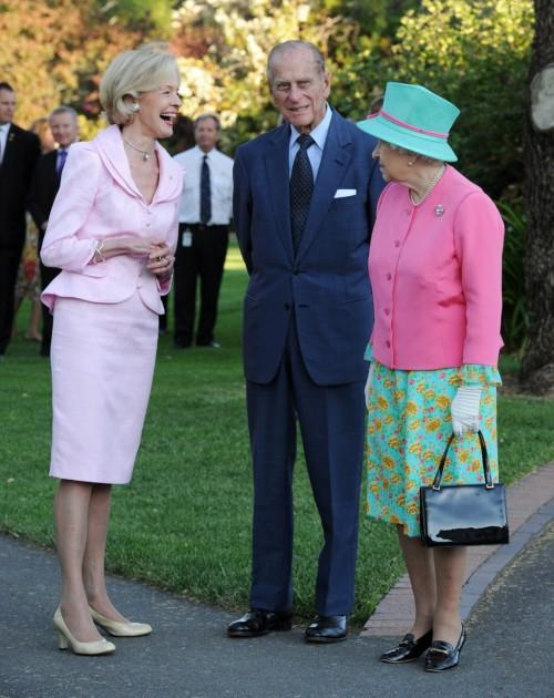 Quentin Bryce (Governor-General of Australia), Prince Philip, Duke of Edinburgh, and Queen Elizabeth II at Government House, Canberra